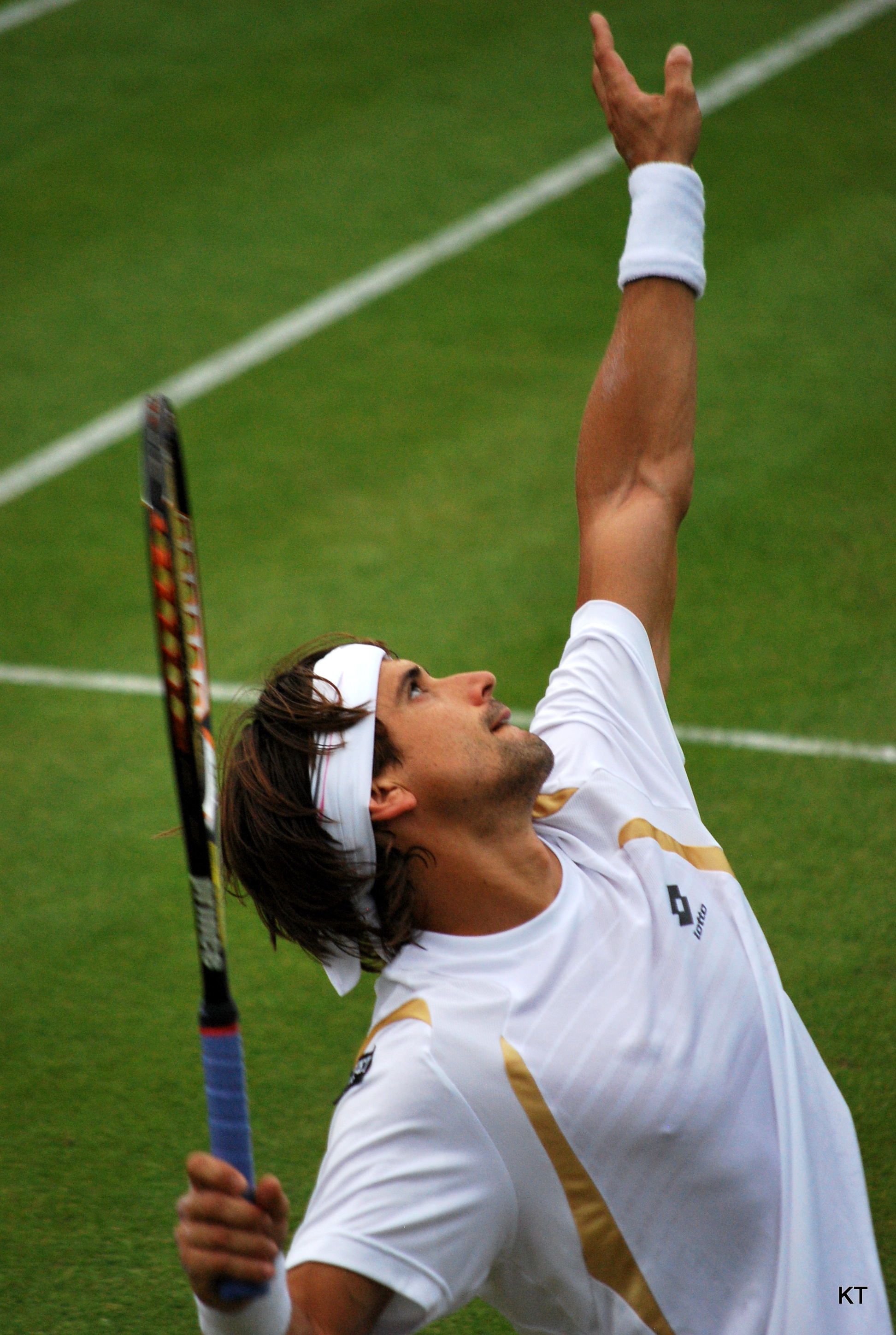 David Ferrer during his first round match with Dustin Brown on Day 2 of Wimbledon 2012. Ferrer won 7-6, 6-4, 6-4.